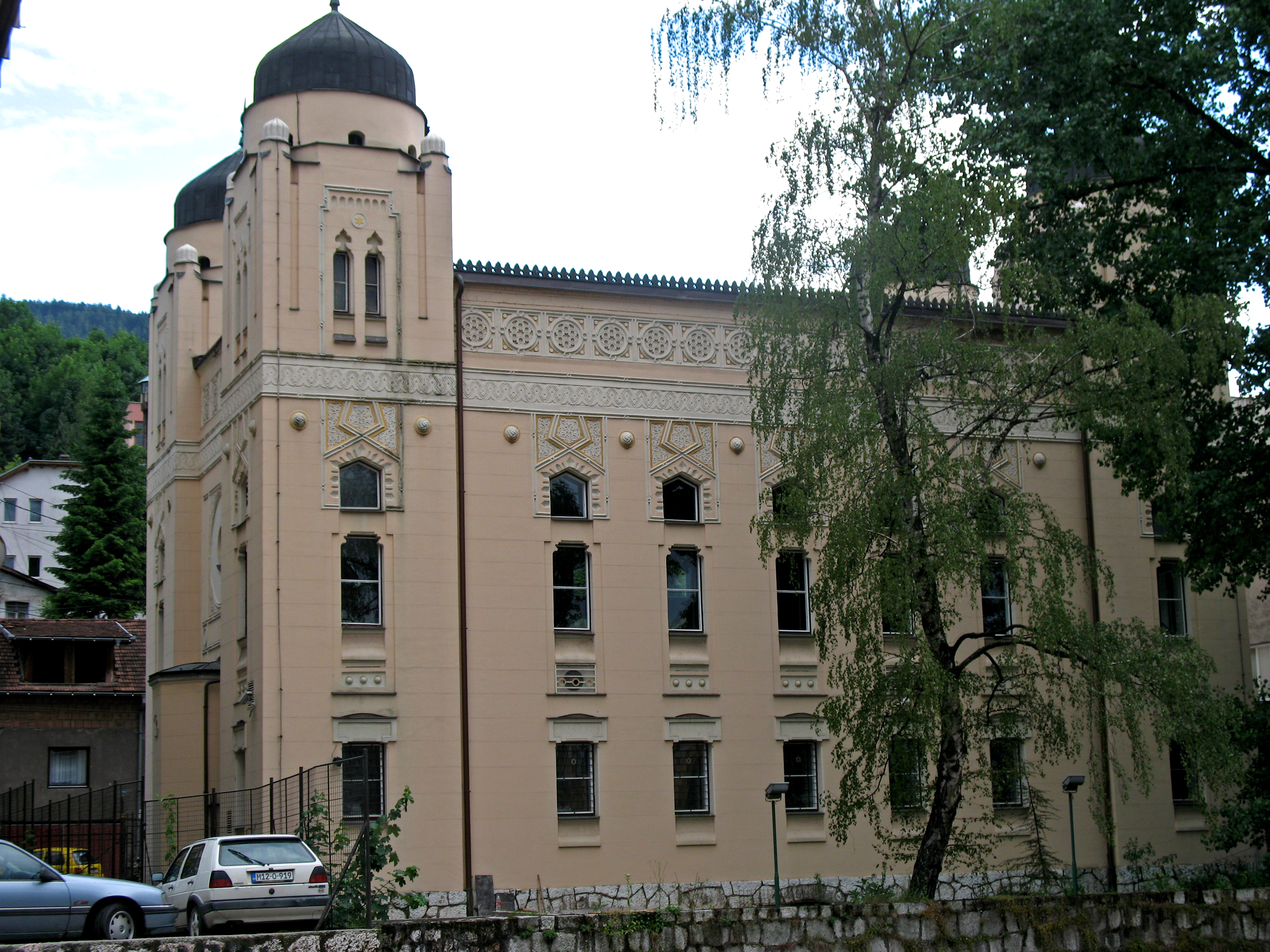 It was built in 1902 and it is the only active synagogue in Sarajevo. It is believed to be the third biggest synagogue in Europe.